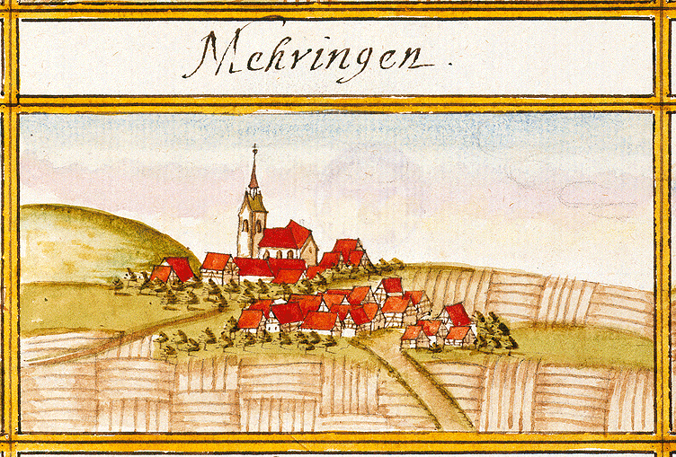 View of Mähringen, Kusterdingen, from the forest register books created by Andreas Kieser